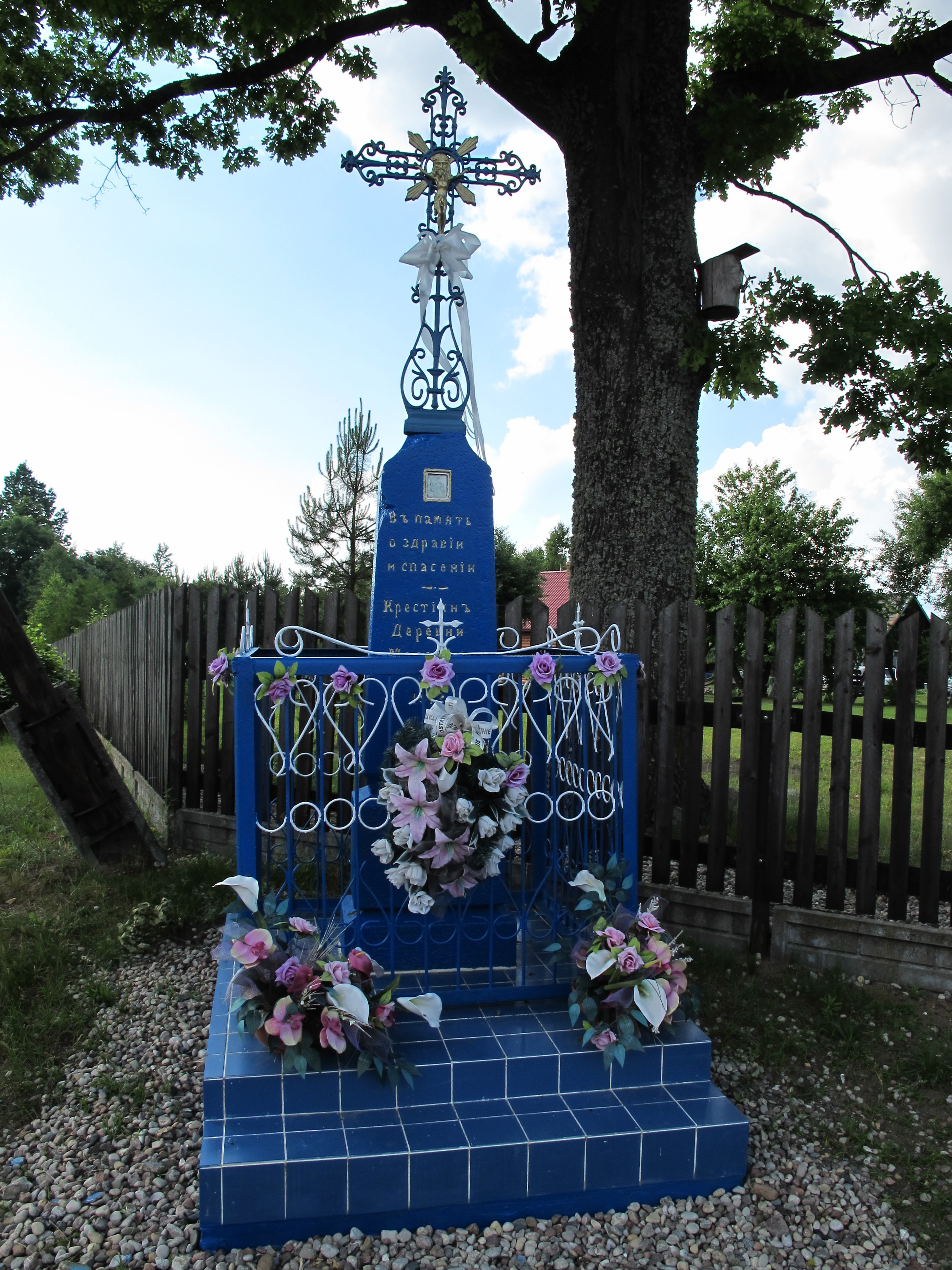 Cross in Nowe Masiewo village, gmina Narewka, podlaskie, Poland